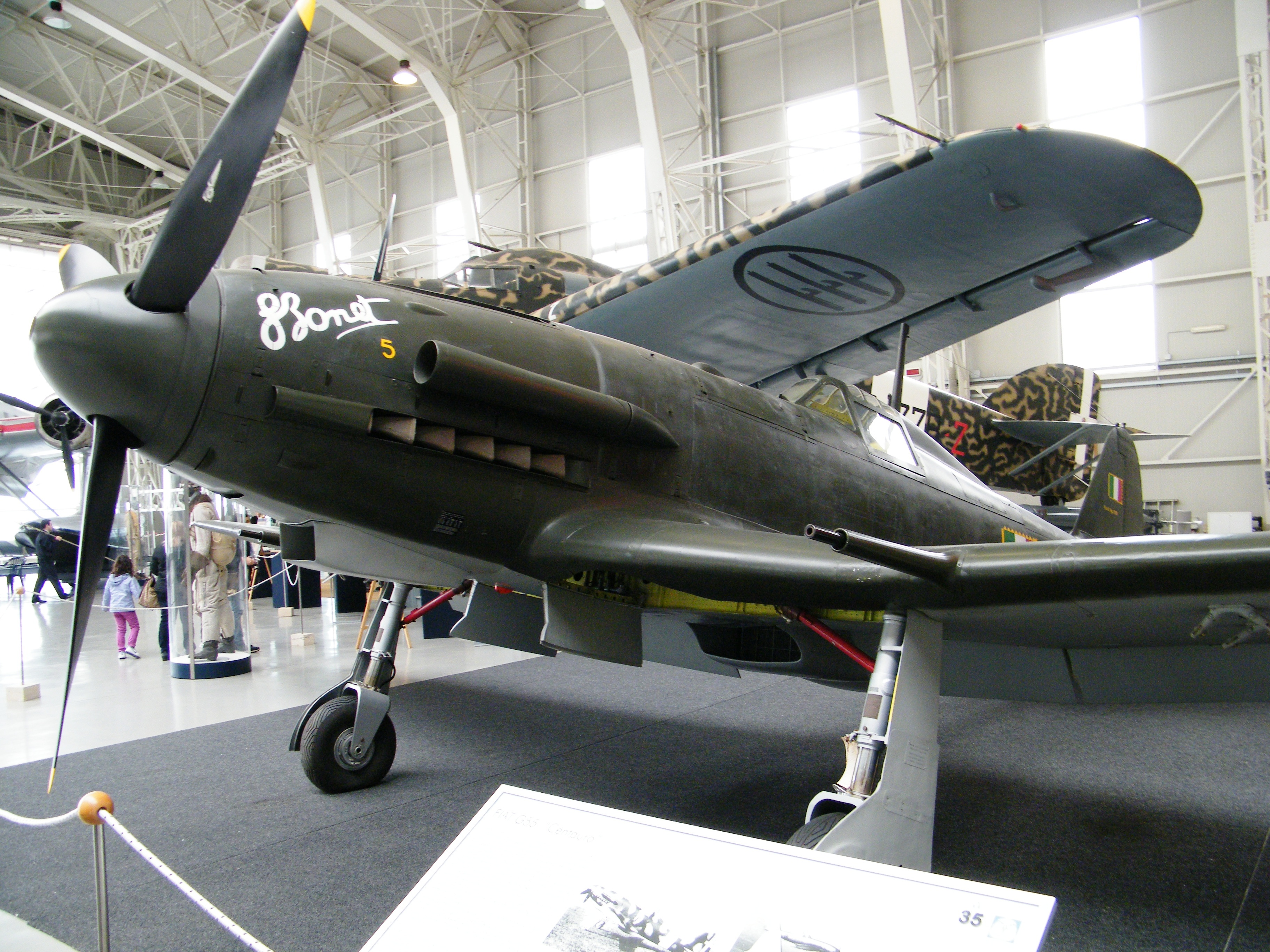 Fiat G.55 at the Italian Air Force Museum, Vigna di Valle in 2012